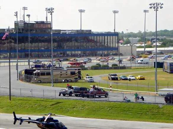 Skybox complex and media center at Dover International Speedway.